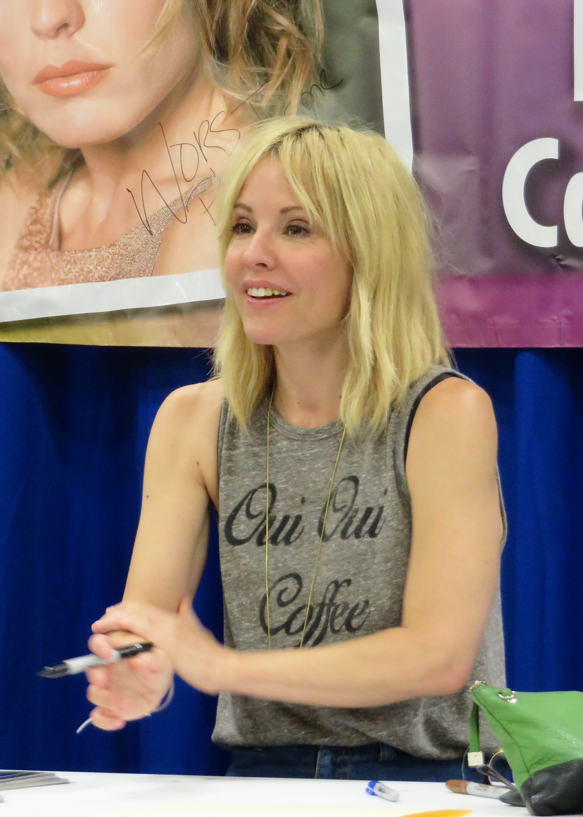 Emma Caulfield 06